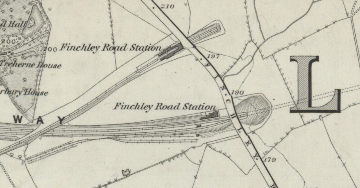 London and North Western Railway's Finchley Road station (top) and Midland Railway's Finchley Road station (bottom) on 1870 Ordnance Survey map.